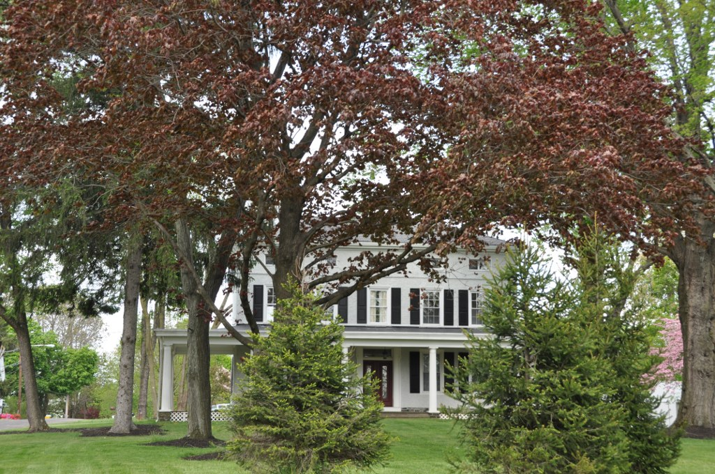 The historic property called Belmont in Bensalem, Pennsylvania.